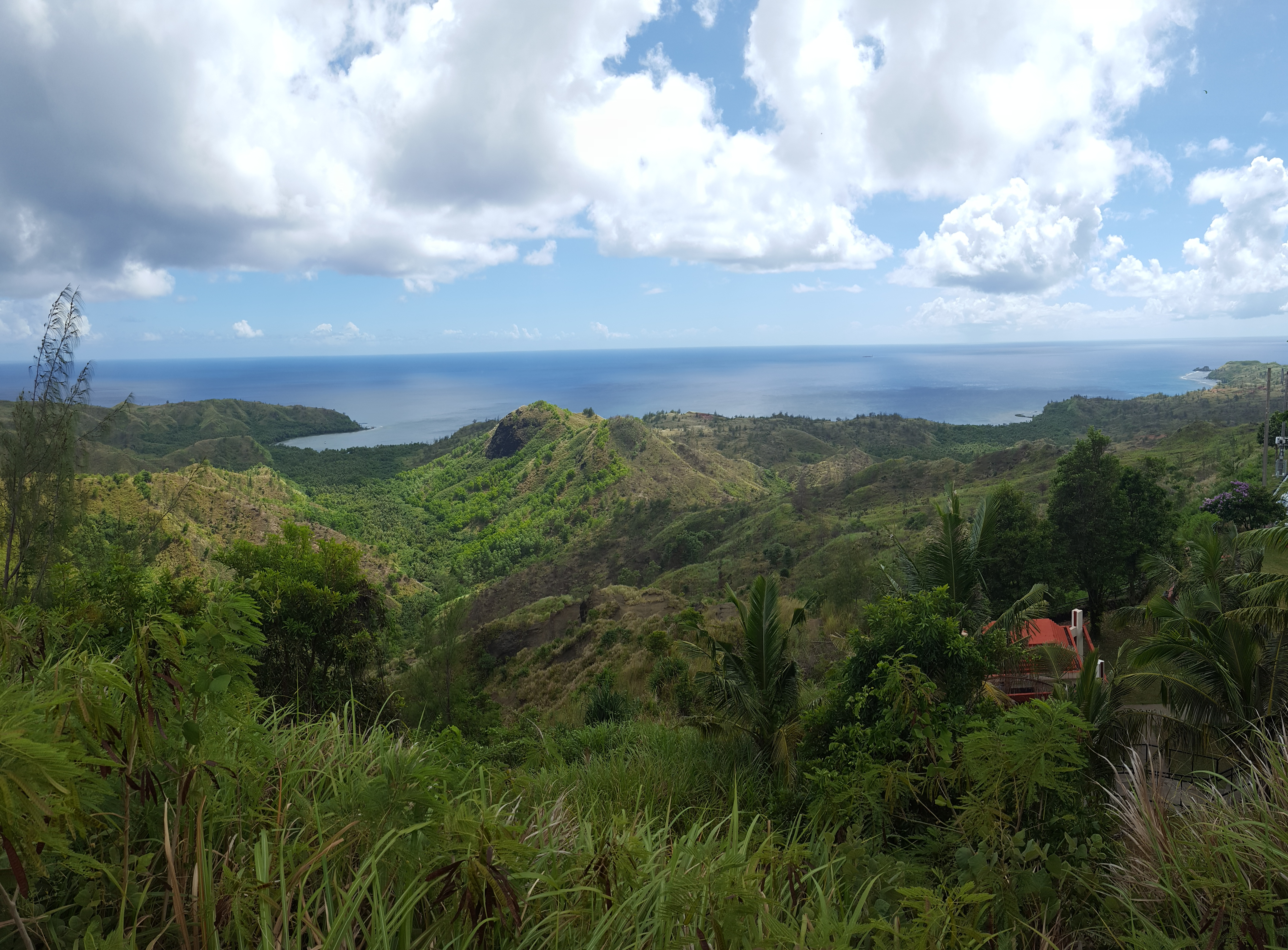 This photo was taken on the Cetti Bay Overlook on June 4, 2017